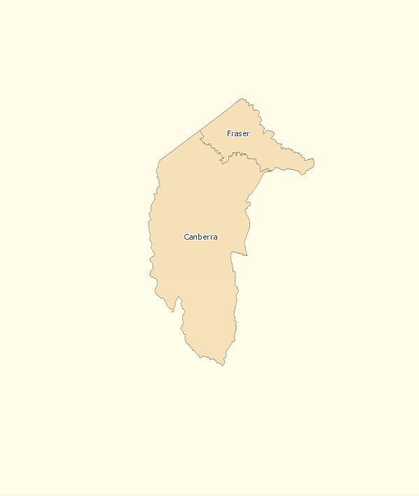 This image incorporates data that is: © Commonwealth of Australia (Australian Electoral Commission) 2009 Australian Capital Territory divisions overview 2010